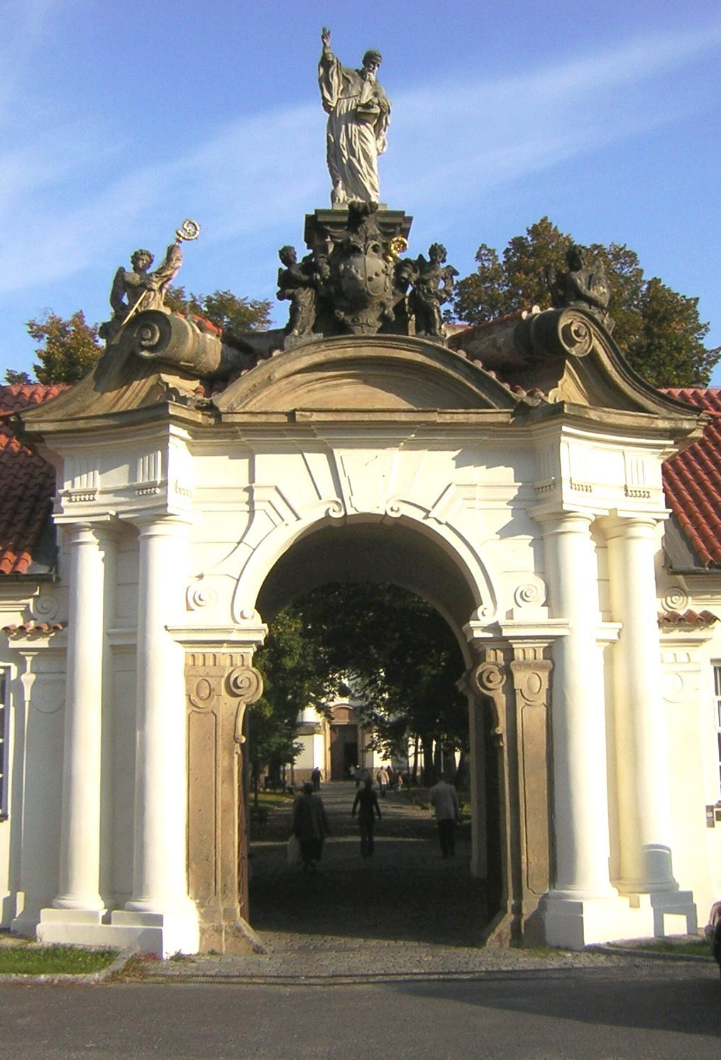 Main entrance of Břevnov Monastery in Prague decorated with St Benedict statue by sculptor Karl joseph Hiernle.